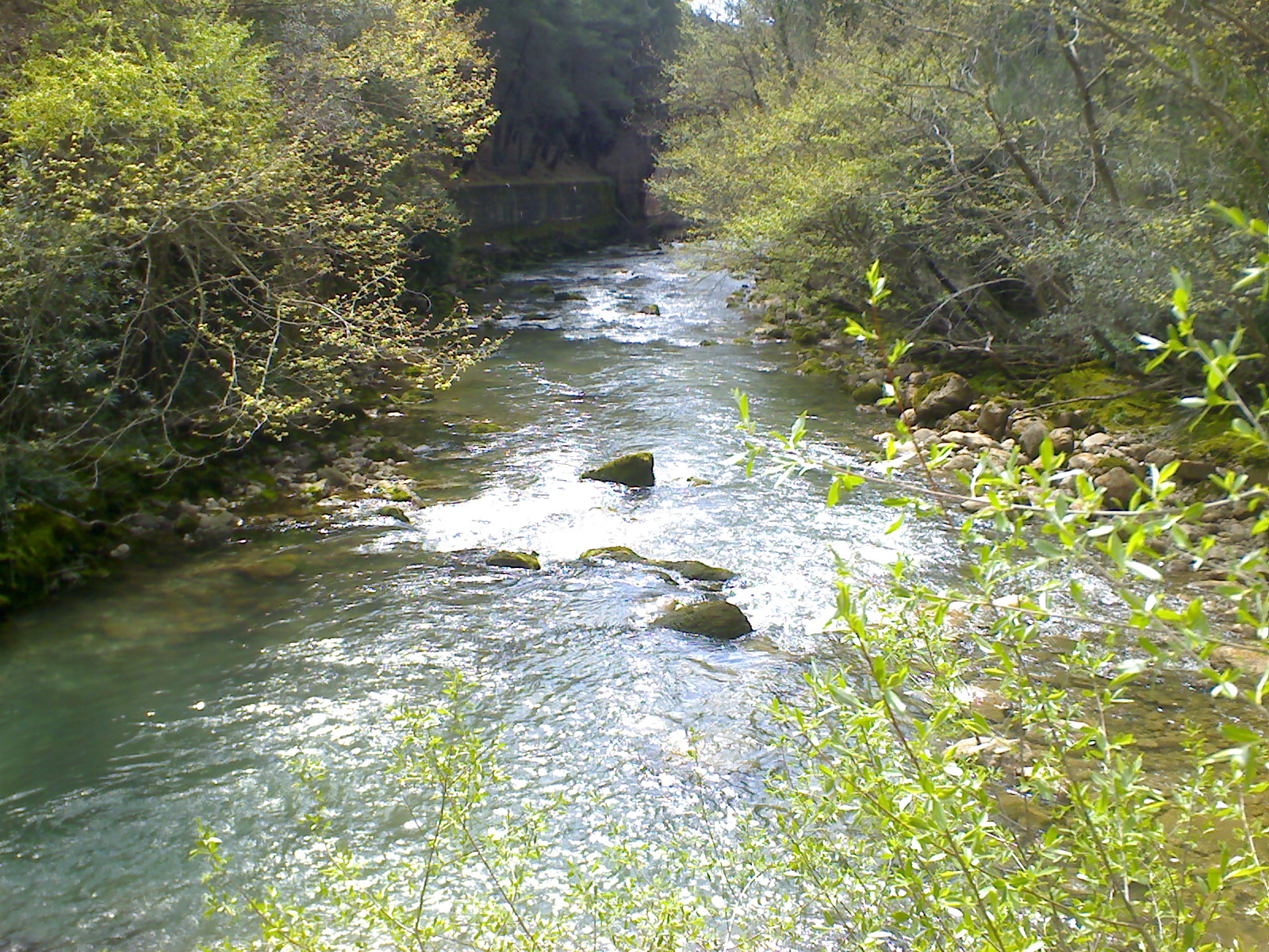 River Ladonas (Ladon) in Peloponnese, Greece.